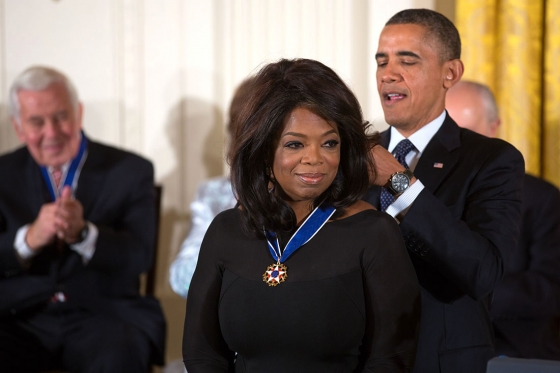 President Barack Obama awards the 2013 Presidential Medal of Freedom to Oprah Winfrey during a ceremony in the East Room of the White House, Nov. 20, 2013.